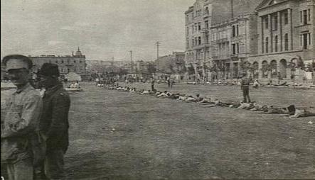 trianing of local troops